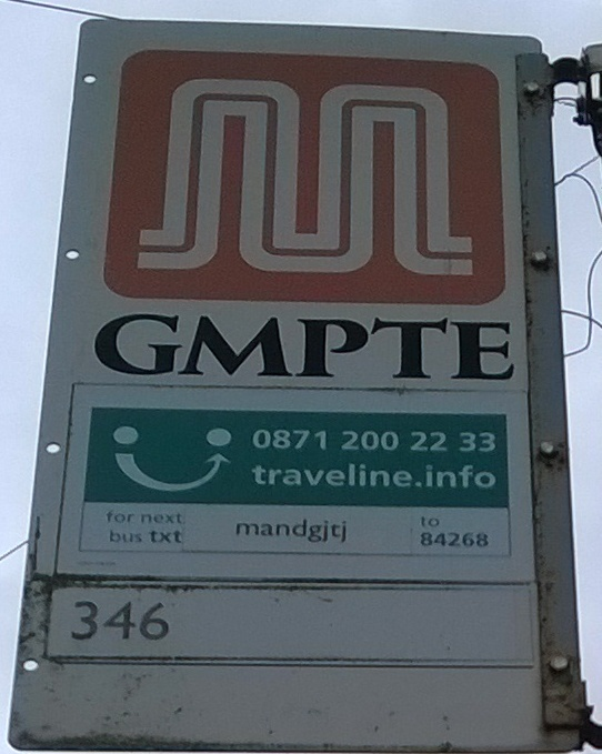 Bus Stop in Greater Manchester